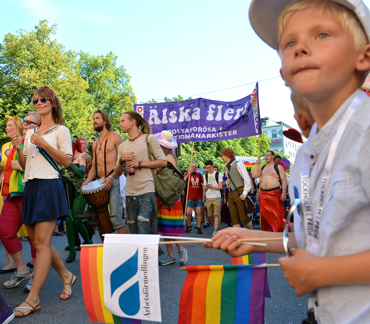 The concluding Pride Parade during Stockholm Pride 2013.